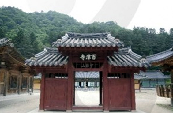 Front gate of Baekdamsa Temple